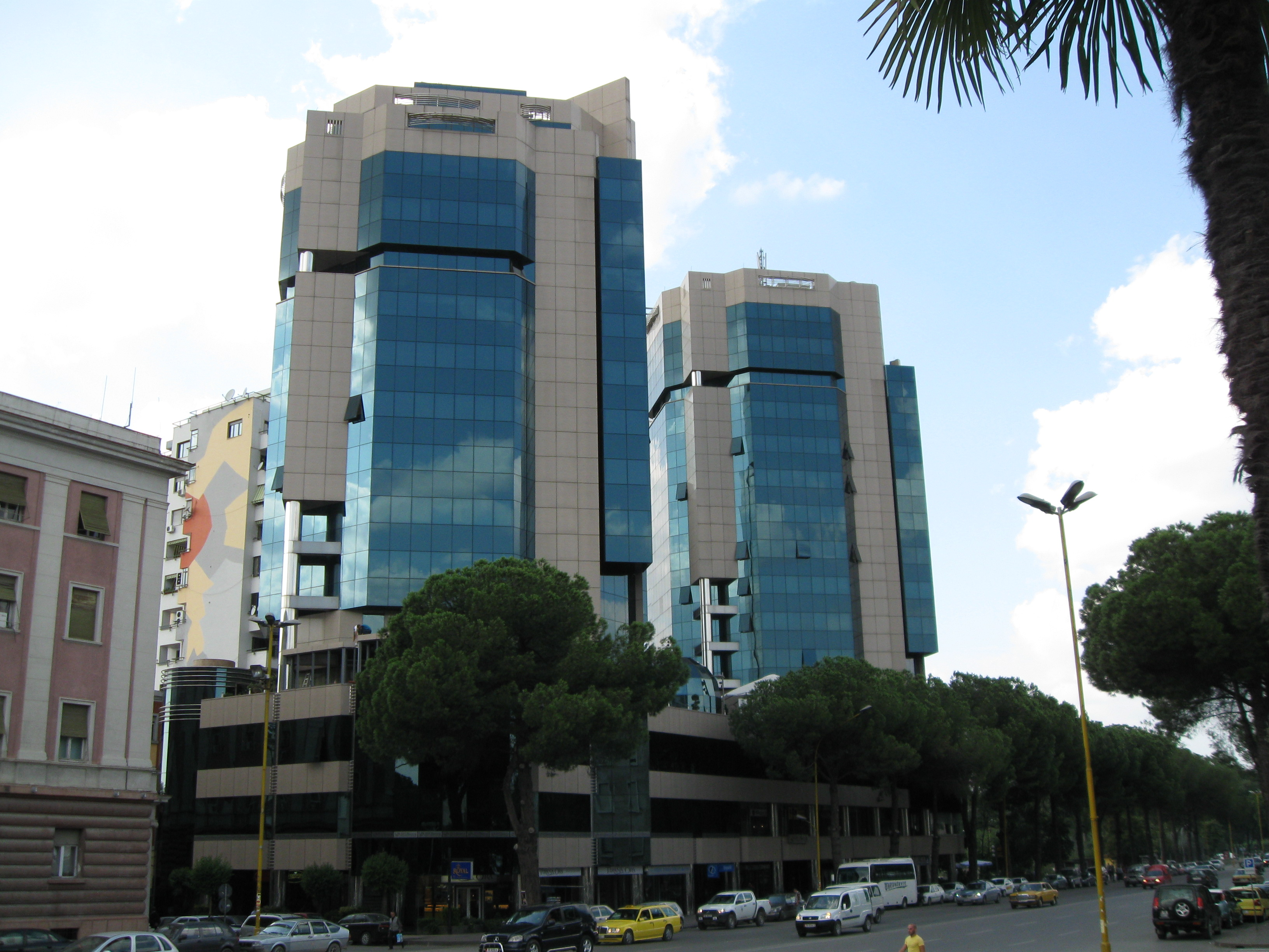 Twin Towers, Tirana, Bulevardi Dëshmorët e Kombit, Albania